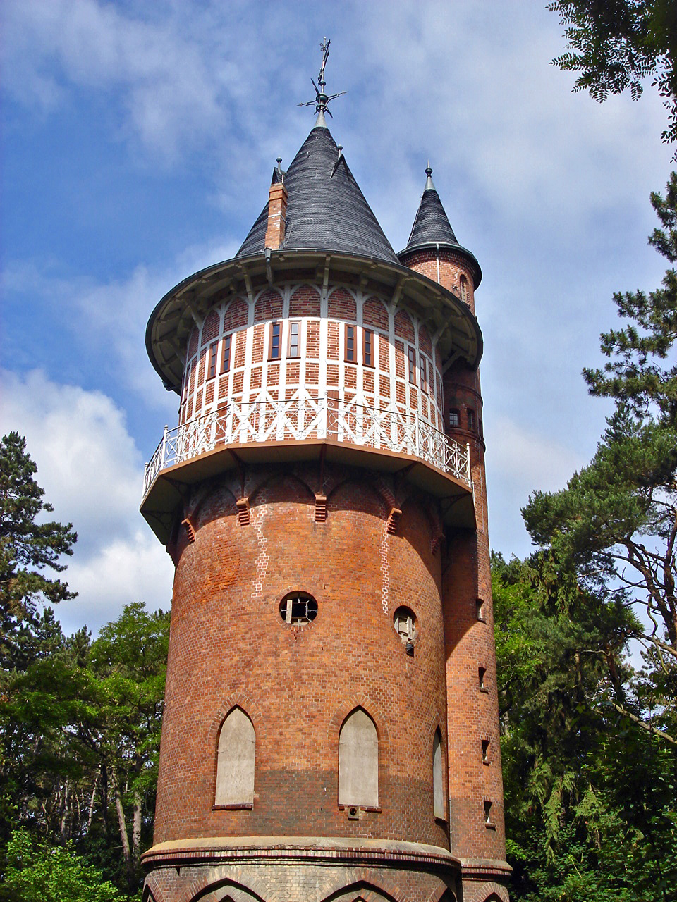 Water tower of Waren (Müritz), Mecklenburg-Vorpommern, Germany.